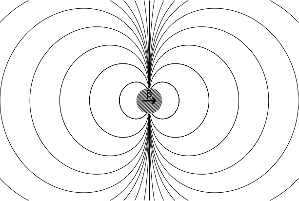 Accurate representation of equipotential contour lines of an infinitesimal dipole, aligned in x-direction. The potential levels are not uniformely spaced, but more lines are drawn at low potential values to make the spacing in the image more even.